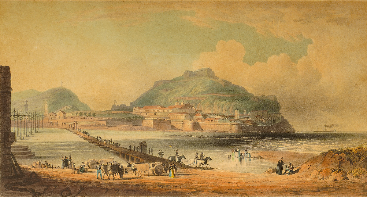 Museo_Zumalakarregi_Albumsigloxix_001678.JPG